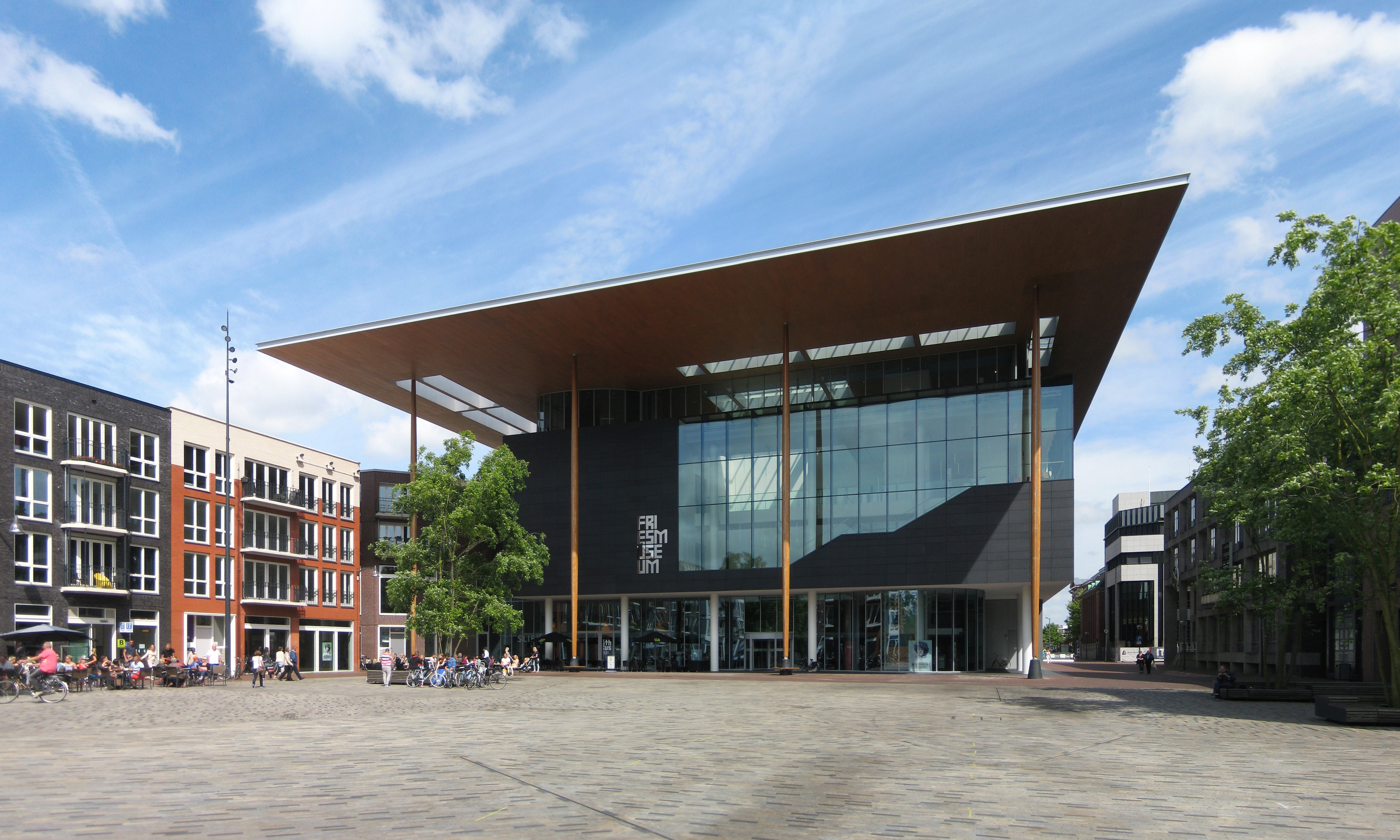 The Fries Museum (b. 2010-2012, Hubert-Jan Henket) in Leeuwarden, the capital of the Dutch province of Fryslân.